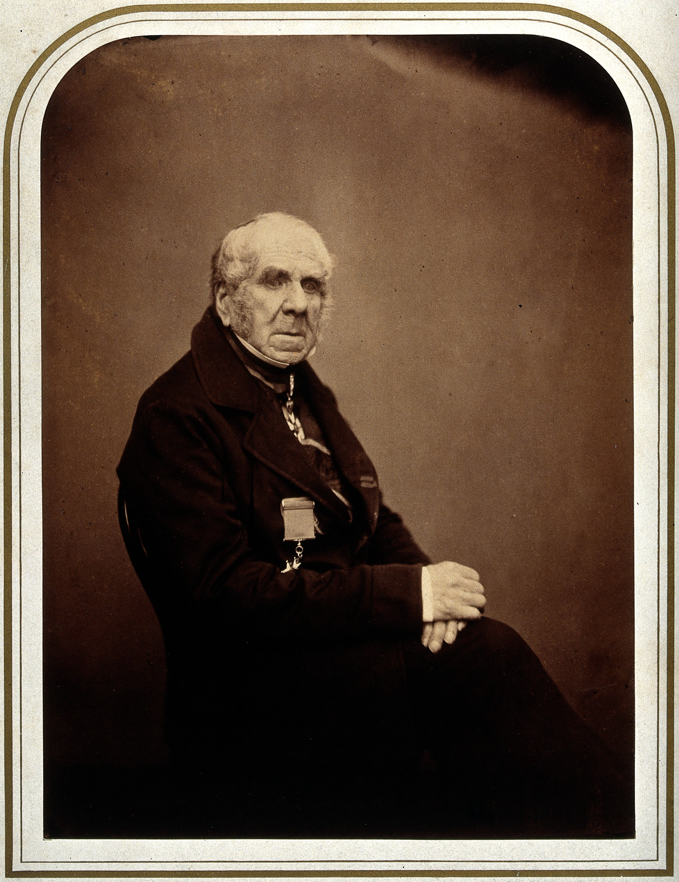 John Ross (1777-1856) with an order of chivalry. Photograph by Maull & Polyblank. Iconographic Collections Keywords: portrait photographs